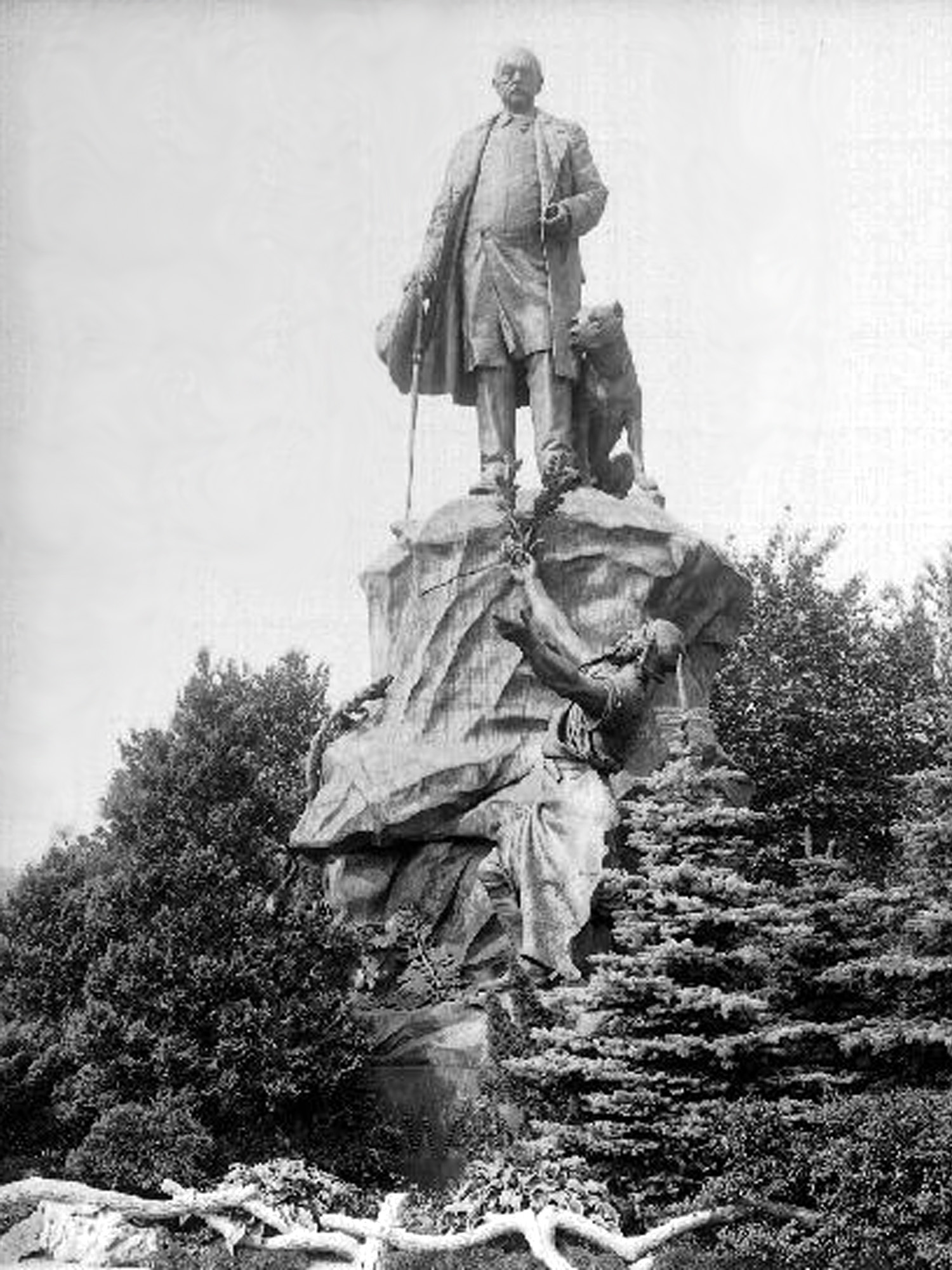 The former Bismarck Monument in the park “Johannapark” in Leipzig.